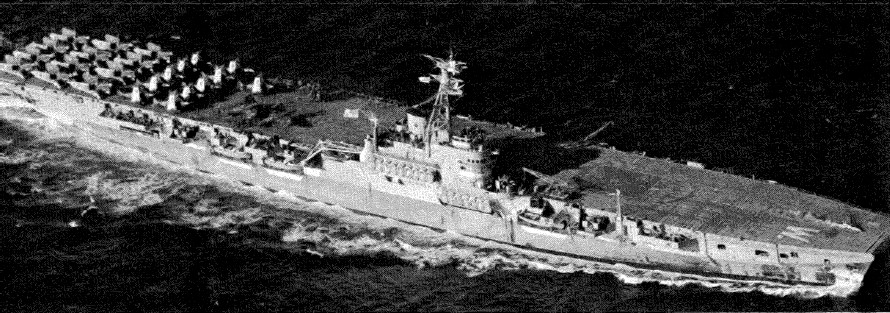 The Colossus-class aircraft carrier HMCS Warrior (R31) while in service with the Royal Canadian Navy, 1946-48.